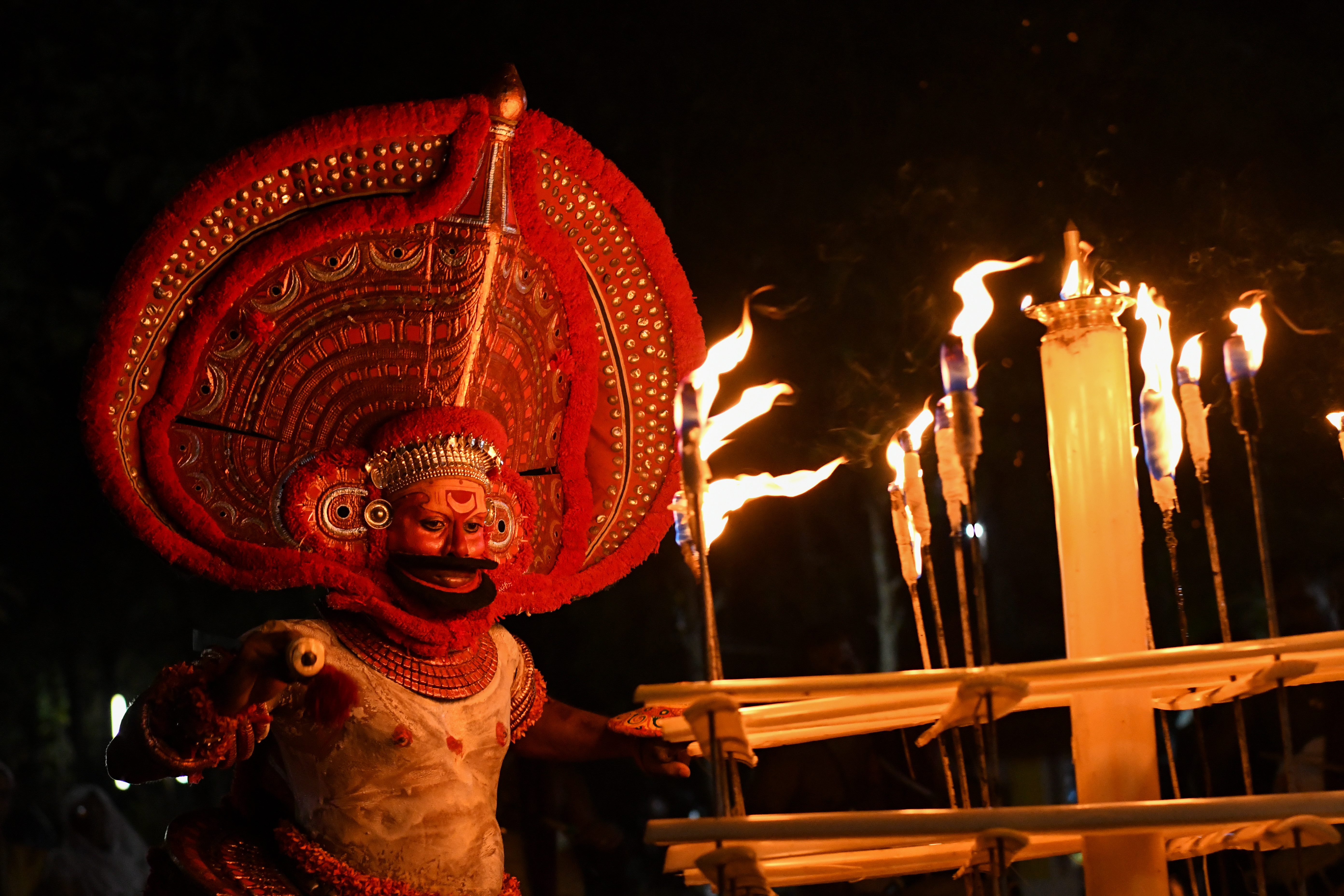 Theyyam is a ritual art of kerala